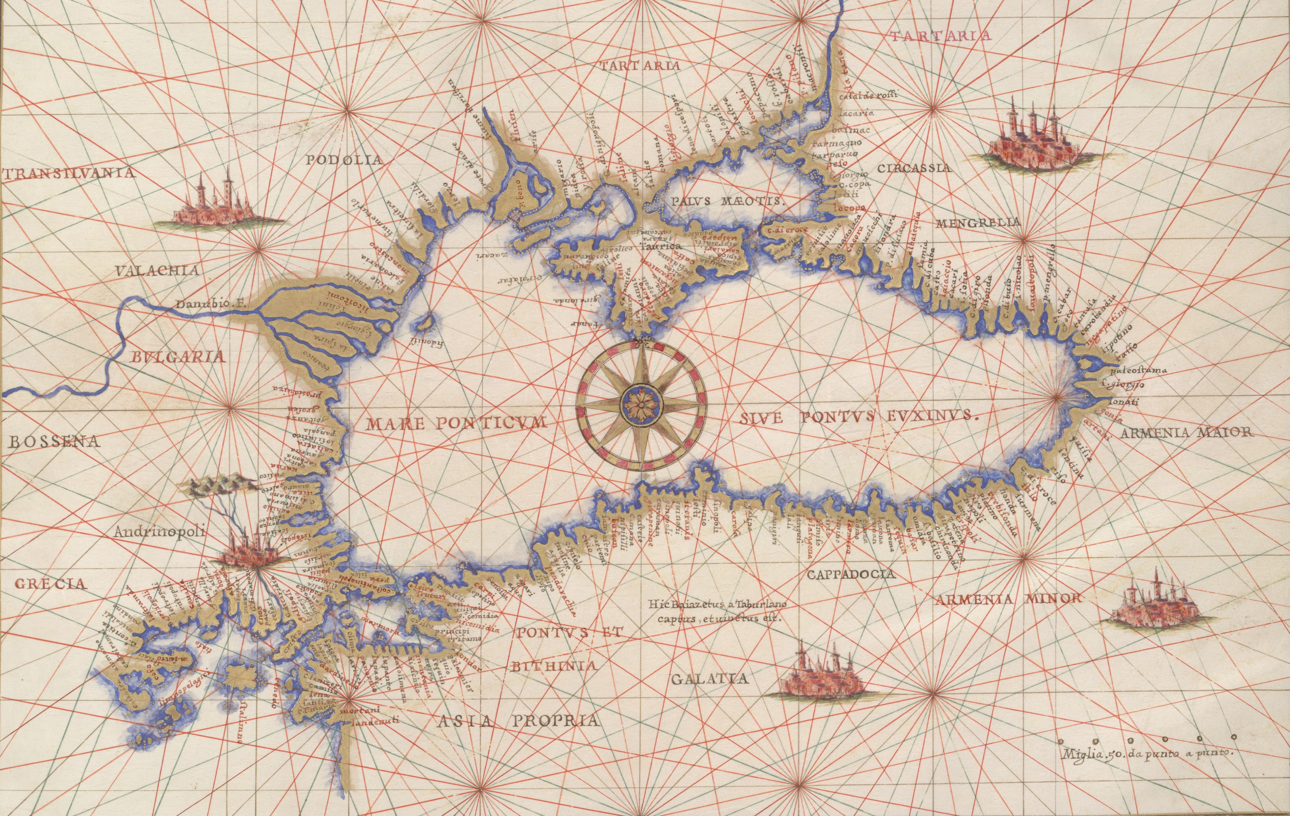 Black Sea. HM 28. Francesco Ghisolfi, PORTOLAN ATLAS Italy, 16th century Call Number: HM 28 Folio: f. 14 Description: Black Sea.